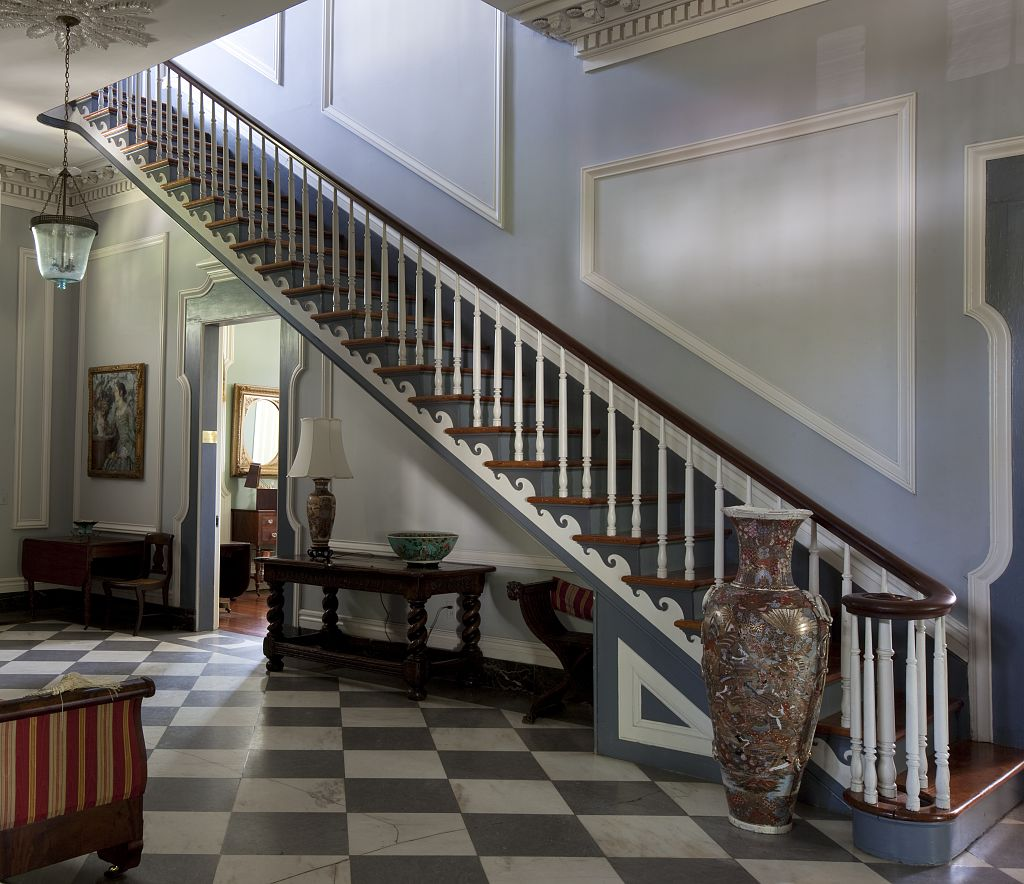 Stairway in hall, Sturdivant Hall, Selma, Alabama.